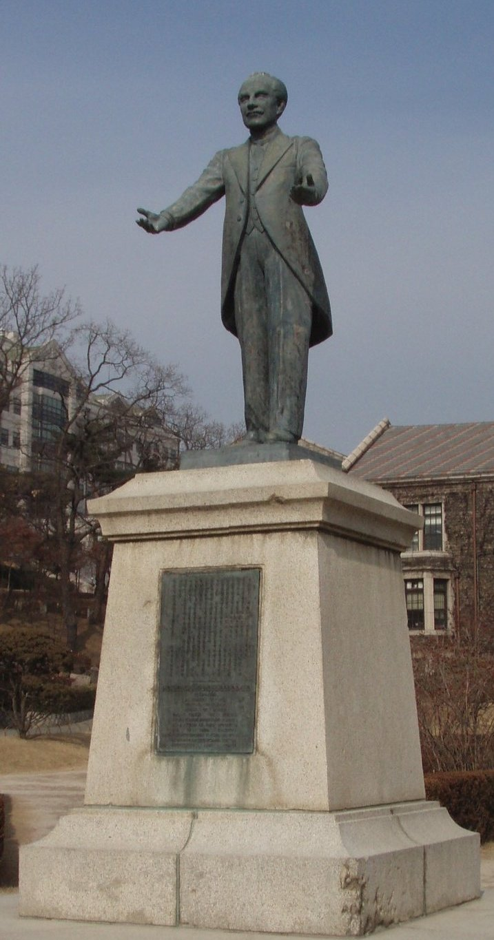 statue of Horace Grant Underwood at Yonsei University